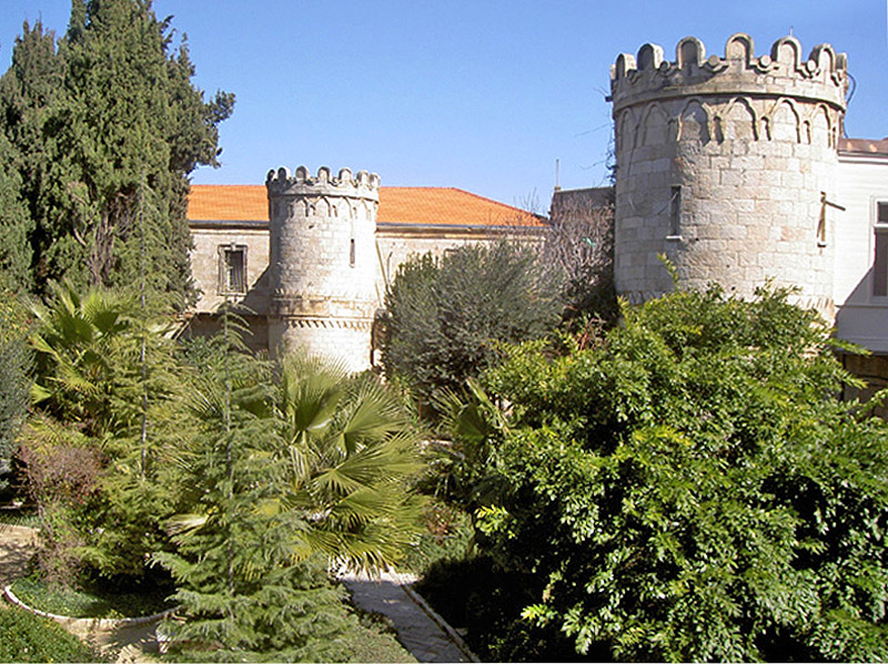 Sergei Court in the Russian Compound Jerusalem